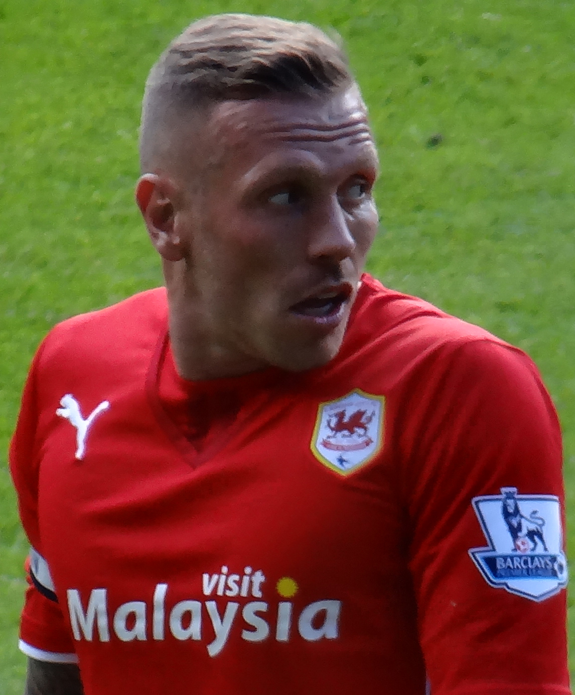 Craig Bellamy playing for Cardiff City in 2013.